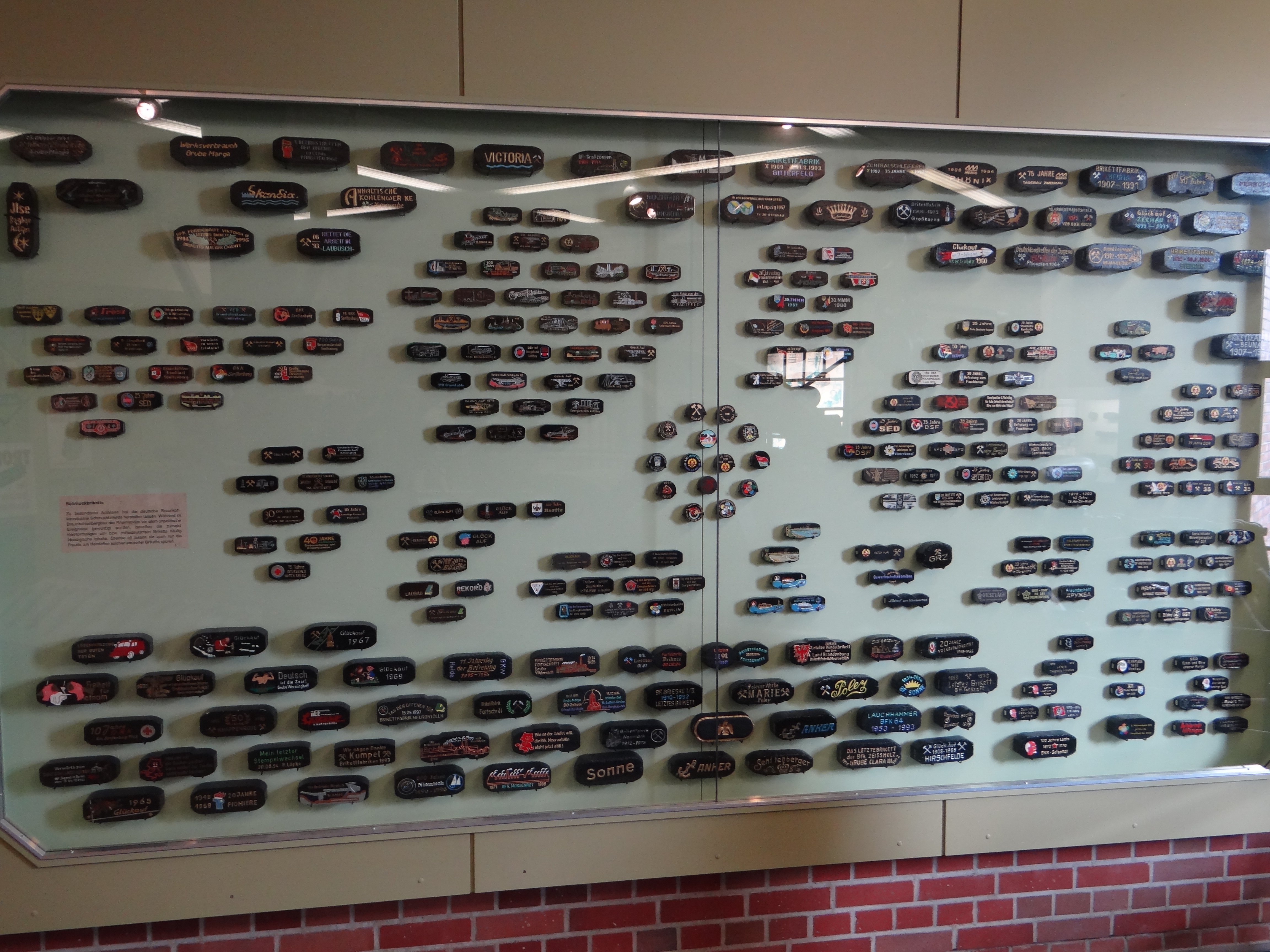 Deutsches Bergbau-Museum (German Mining Museum) Bochum. Coal briquetting